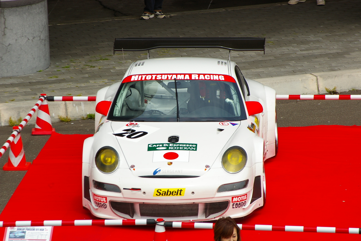 JLMC Porche 997, Northern Load Car festival in Wakkanai city.